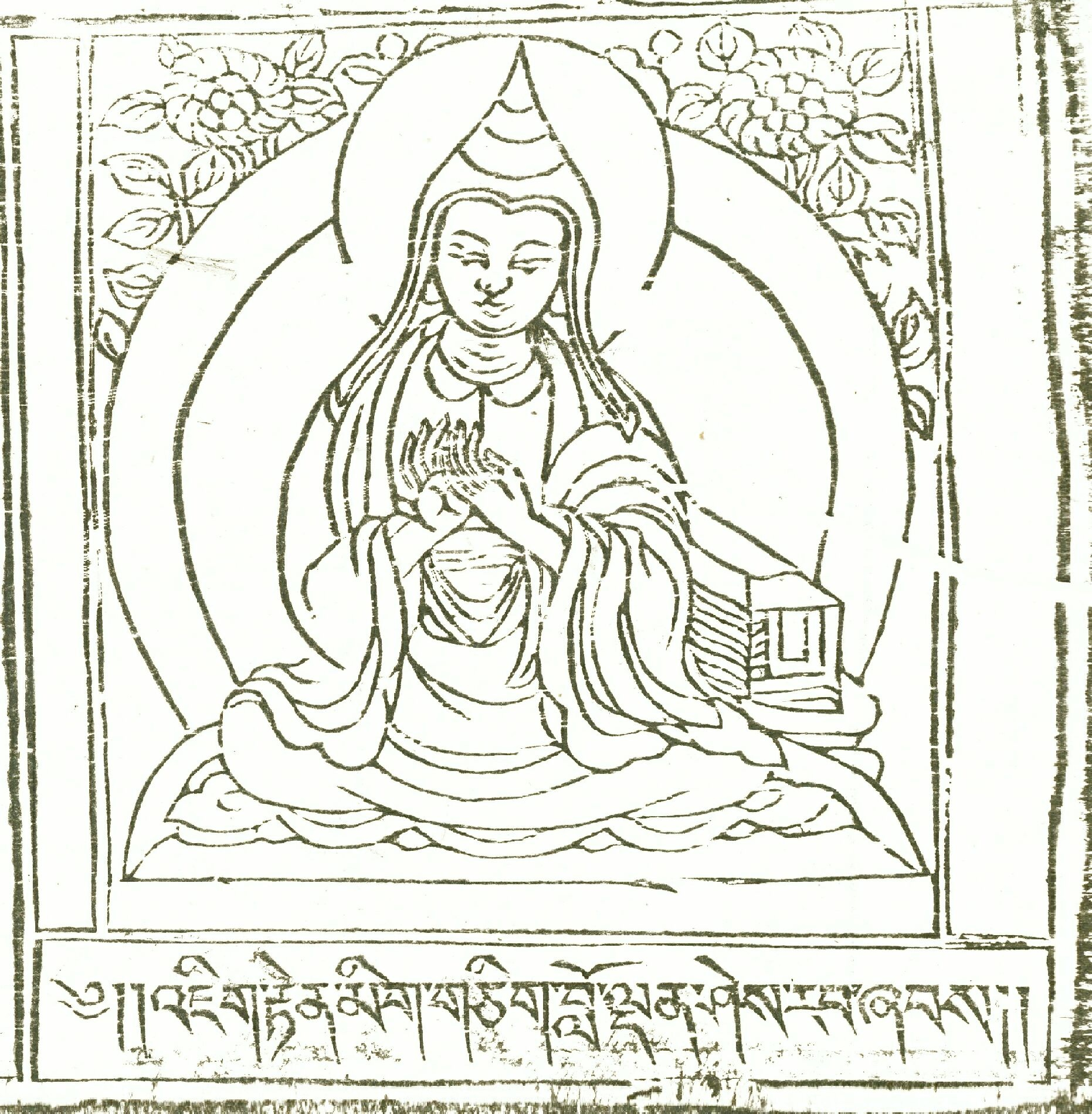 Ngok Lotsawa (1059-1109)- Tibetan Buddhist translator